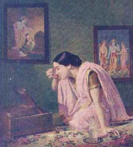 Poster of movie 'Kunku' (Marathi)/ 'Duniya Na Mane' (Hindi), 1937, by V. Shantaram.